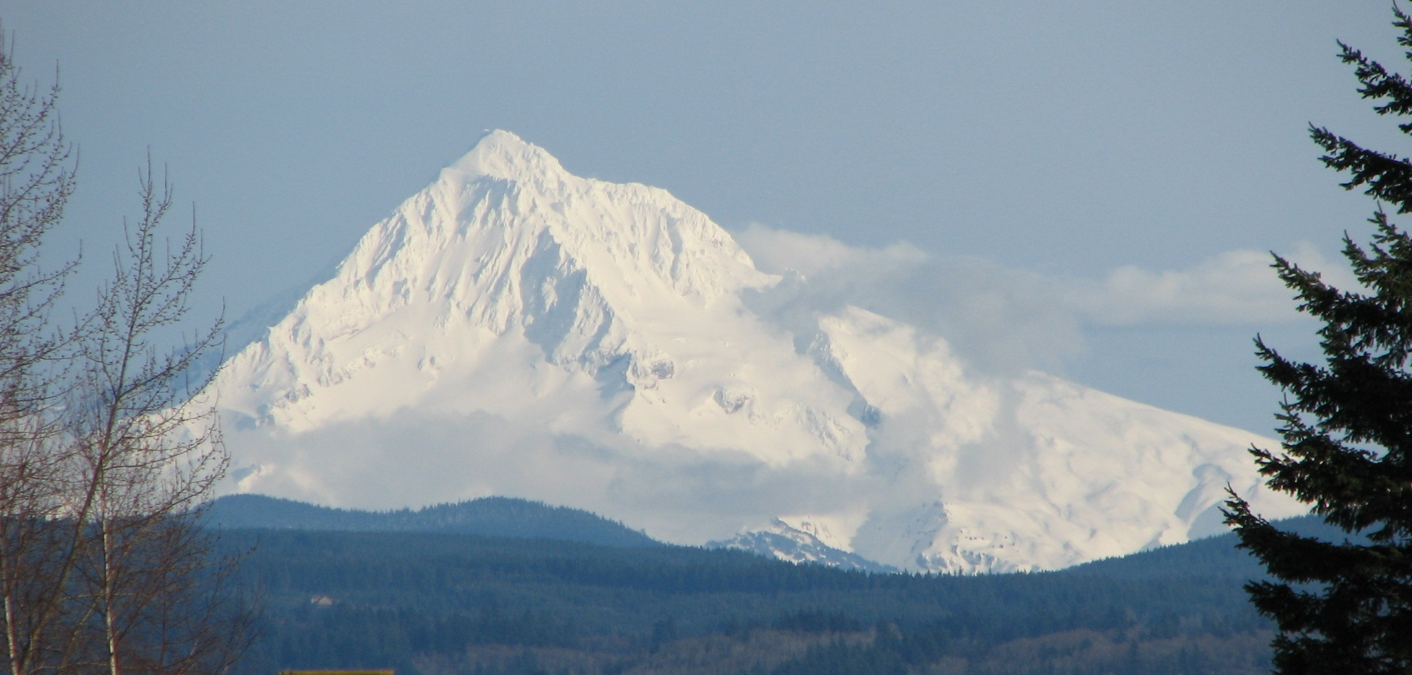 Picture taken in 2006 of Mount Hood, Oregon, USA by: Moribunt